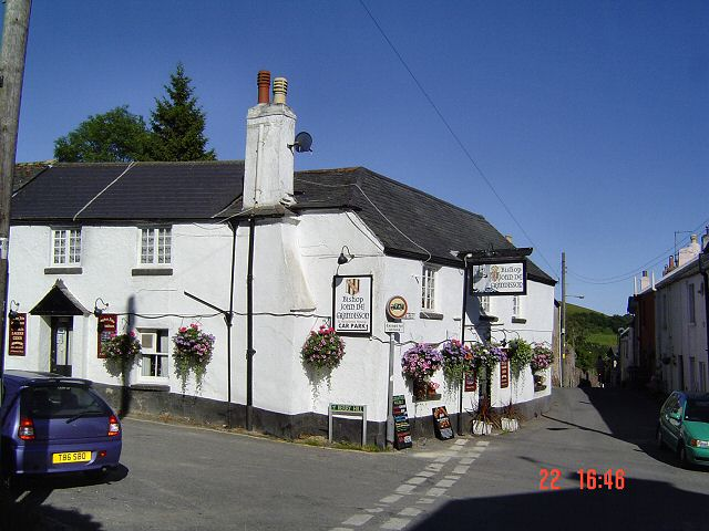 Bishopsteignton pub. The Bishop John de Grandisson. This celebrates the fact that the medieval bishops of Exeter used to stay nearby and (of course) used to collect in the rents.